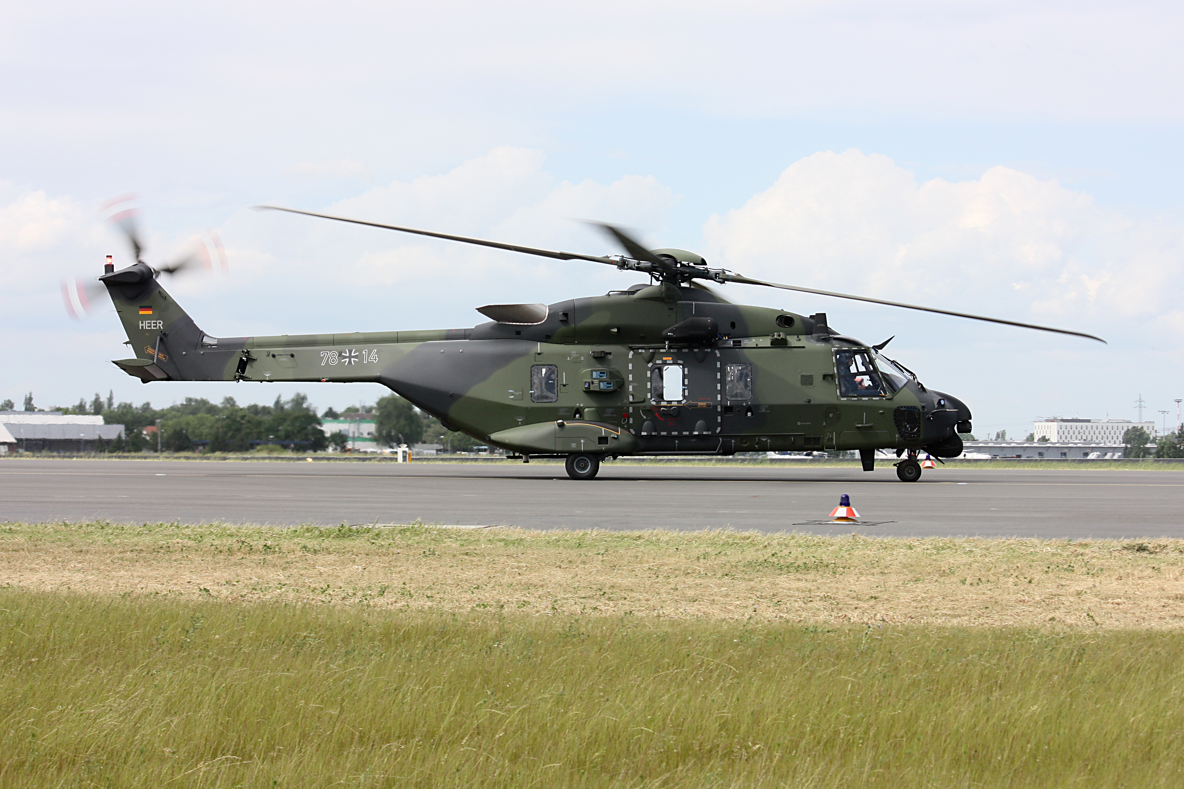 NHIdustries NH90 Tactical Transport Helicopter of German Army, Reg. Nr. 78+14